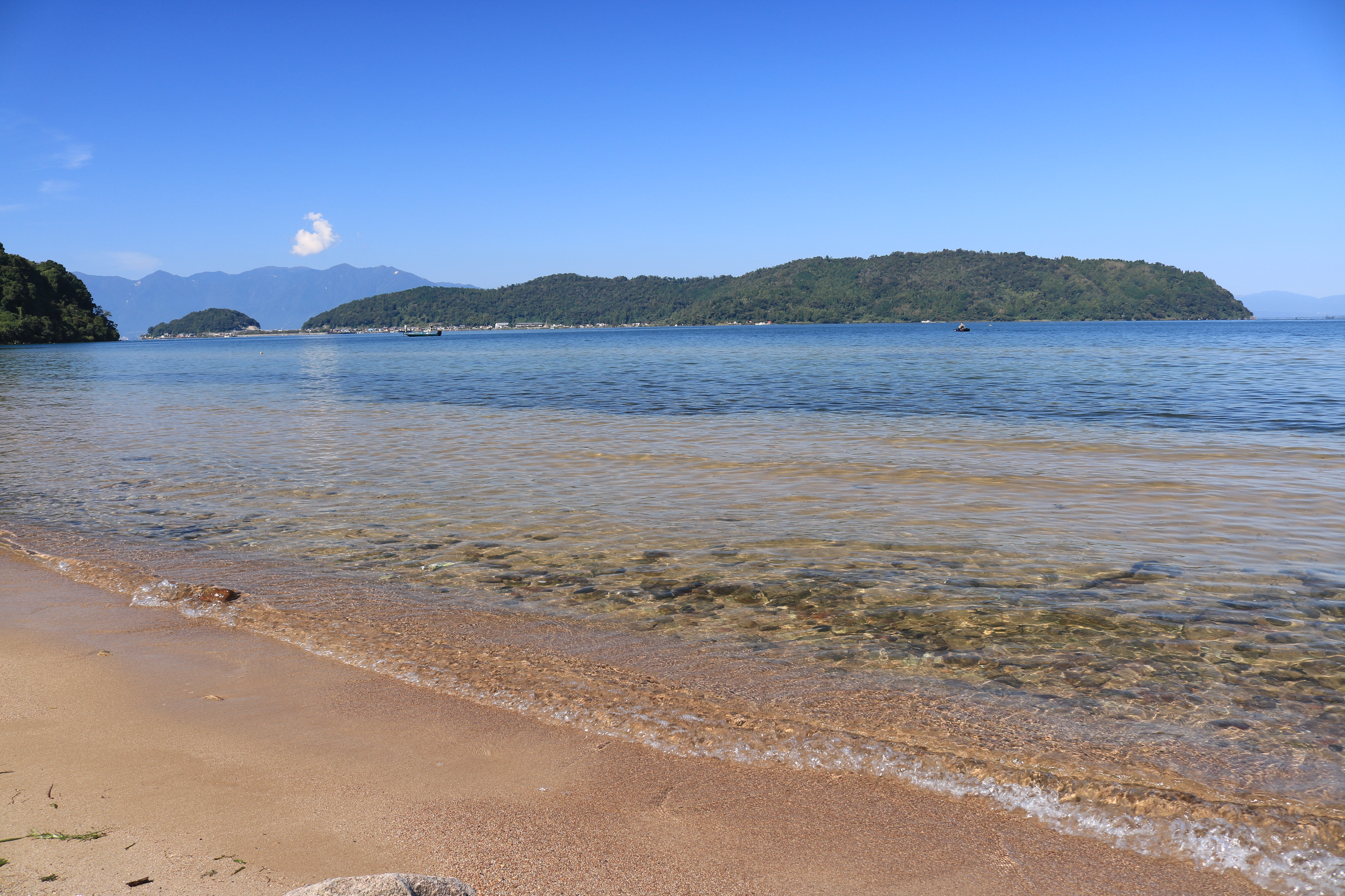 Oki Island seen from Miyagahama of Lake Biwa in Ōmihachiman, Shiga prefecture, Japan.